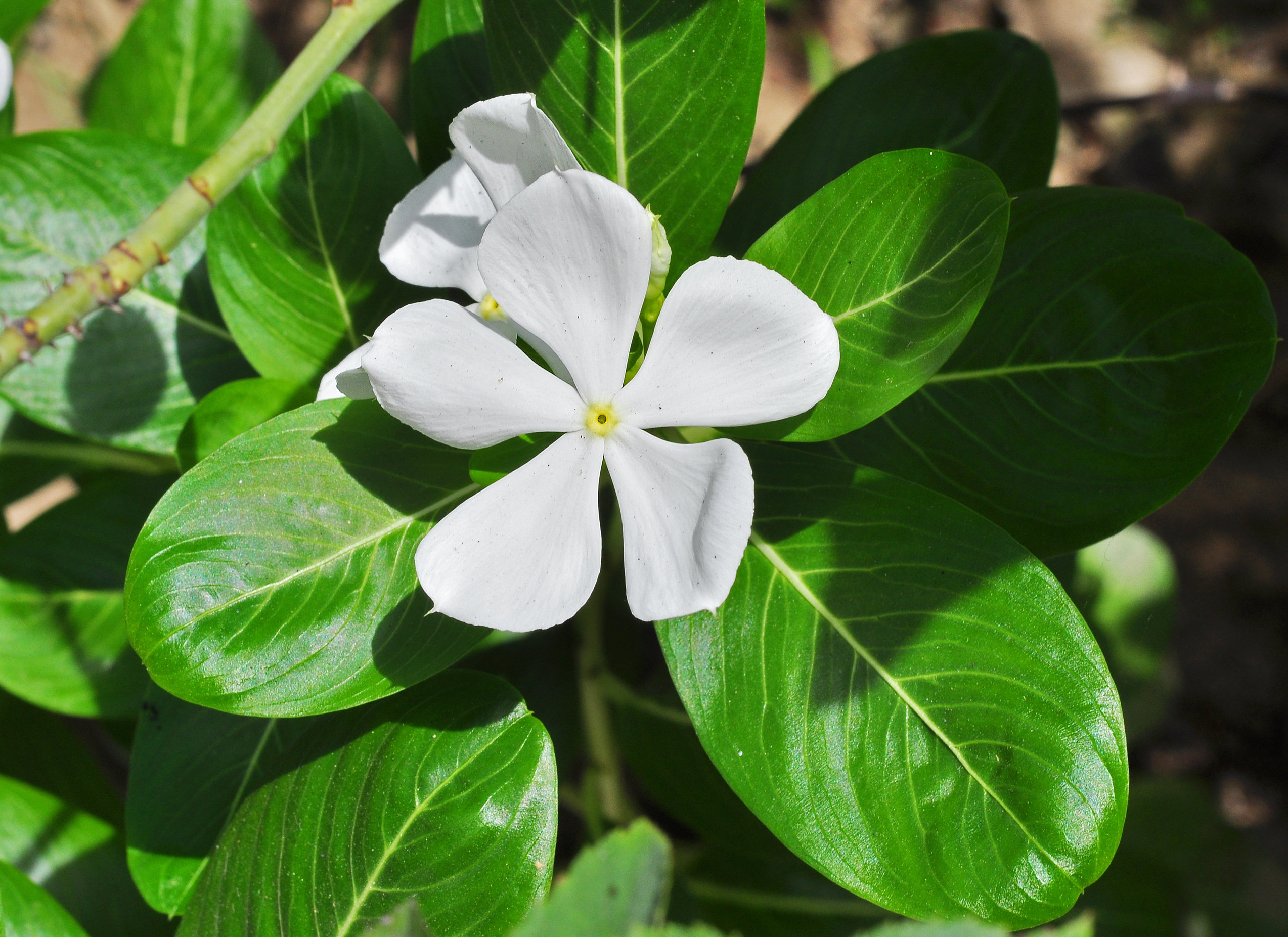 Catharanthus roseus white flower.